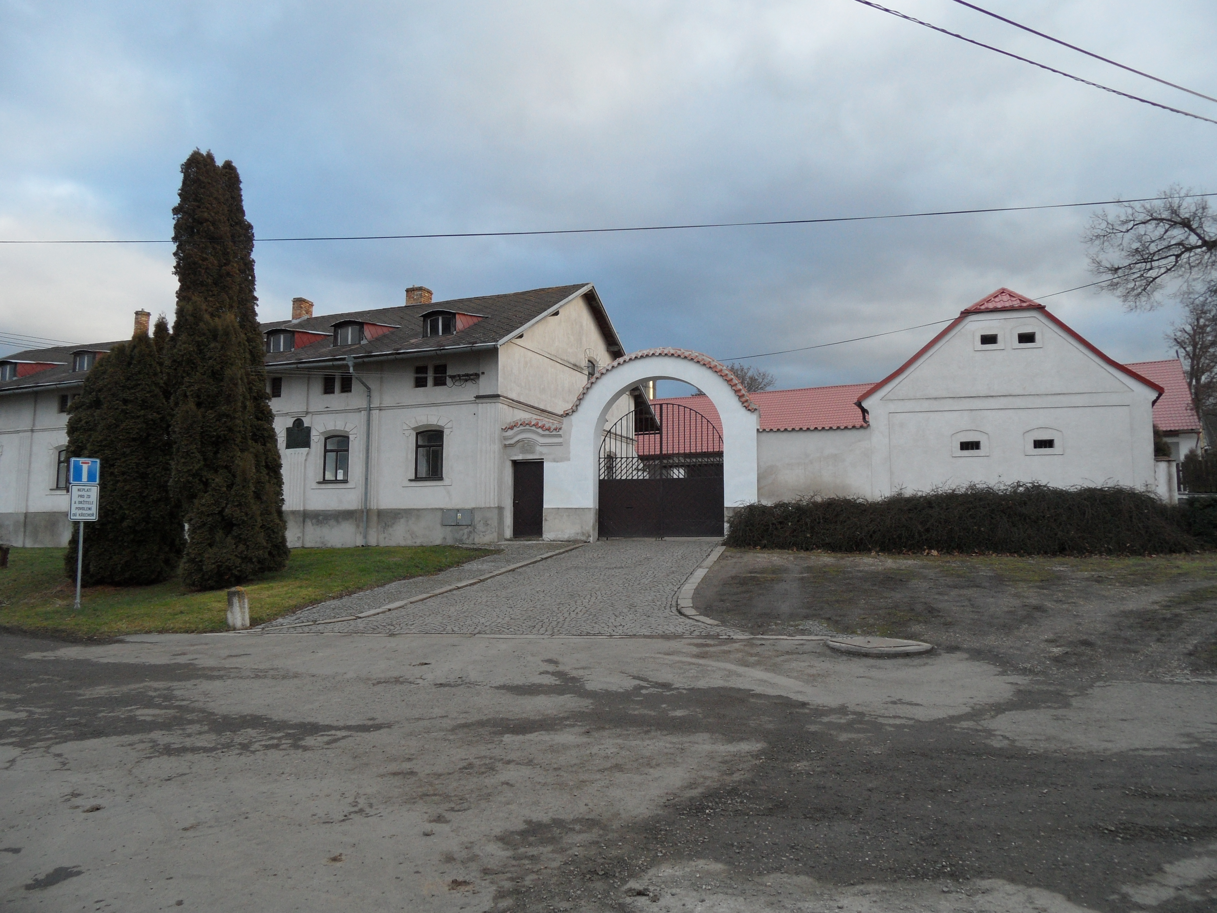 Kutlíře (Křečhoř) A. Farm No. 7, Birthplace of Jan Antonín Prokůpek, Kolín District, the Czech Republic.